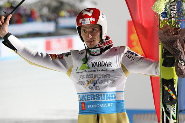 Robert Kranjec during saturday individual competition of FIS Ski-Flying World Championships 2012